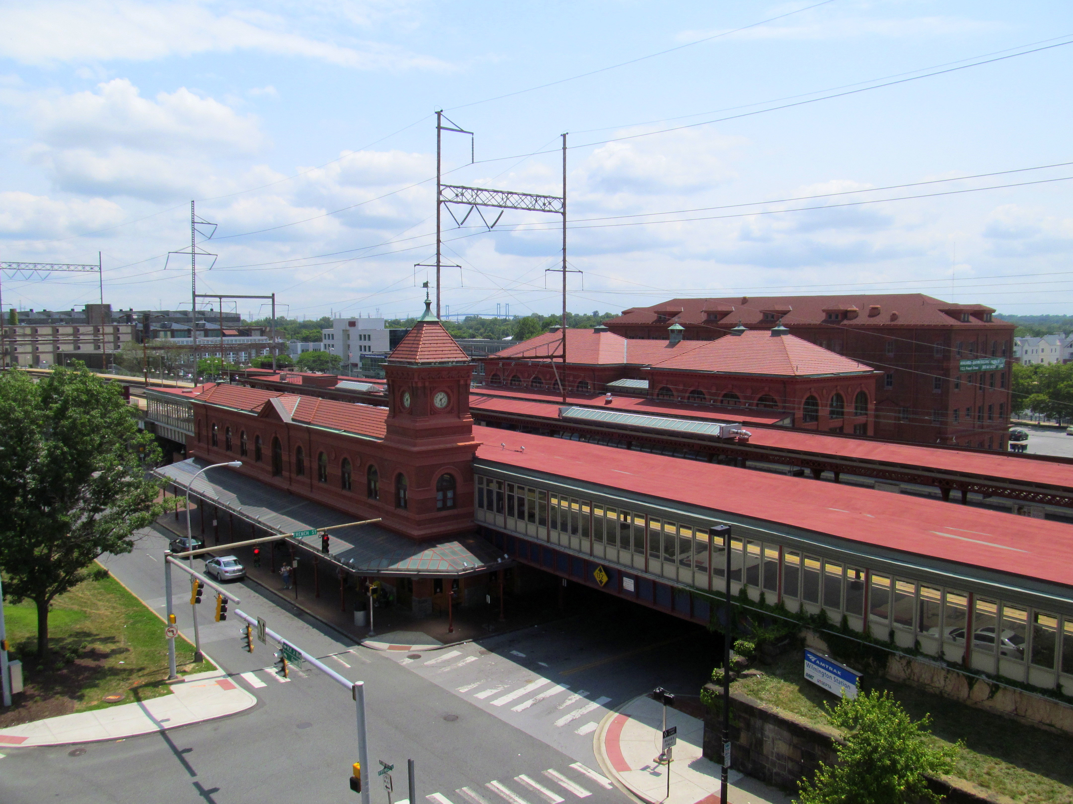 Wilmington Station viewed from the roof of the parking garage in July 2014. The Delaware Memorial Bridge is faintly visible in the background.